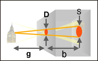 Geometry of a Pinhole camera.